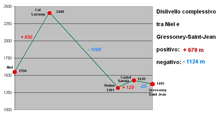 Height difference between Niel (Gaby) and Gressoney-Saint-Jean (AO, Italy)